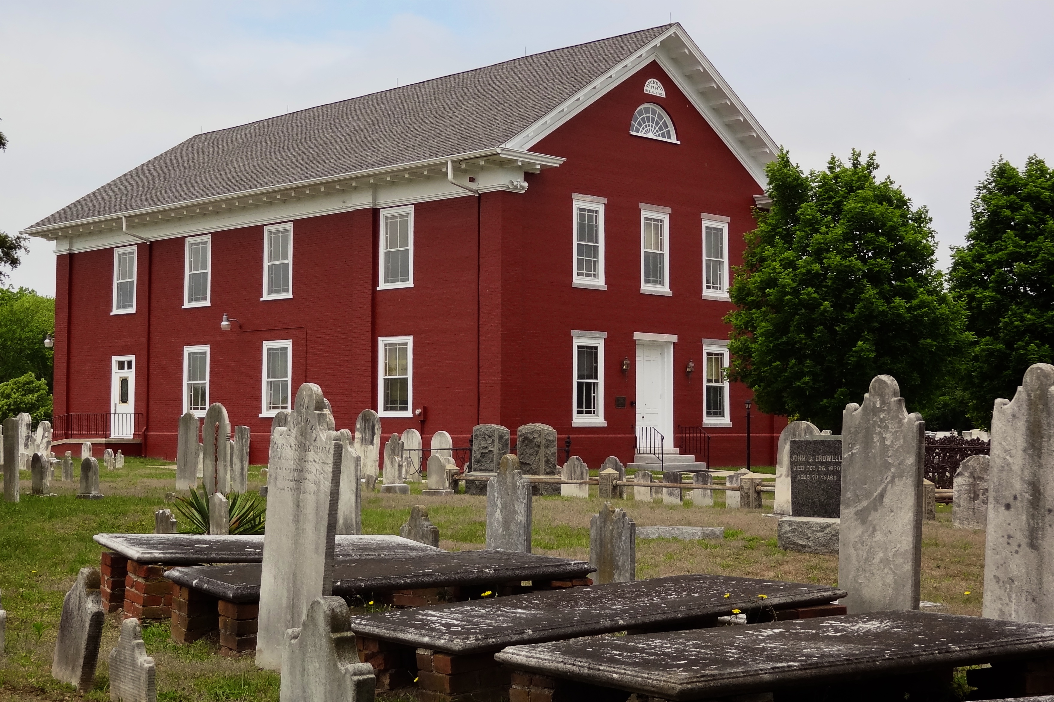 The Cold Spring Presbyterian Church and cemetery in Cold Spring, New Jersey.